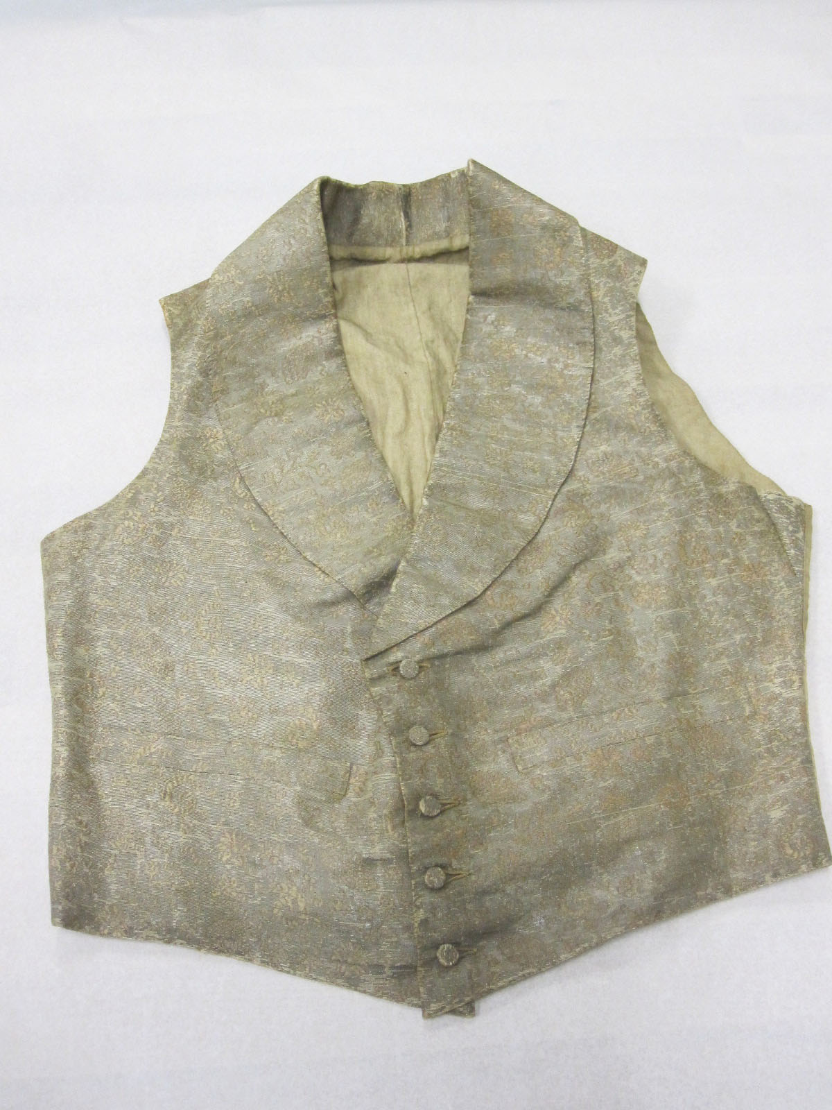 Accession: 67-332-A Waistcoat, Admiral Lord Nelson 19.5" L x 15" W Waistcoat, Admiral Lord Nelson. Silver Brocade. Waistcoat was authenticated as being Lord Nelson's by The Royal Naval College, United Kingdom. Collection of Curator Branch Naval History and Heritage Command.